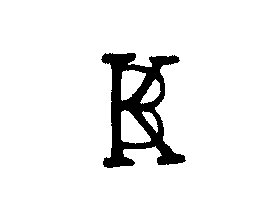 Scan aus Classified Signaturs of Artists